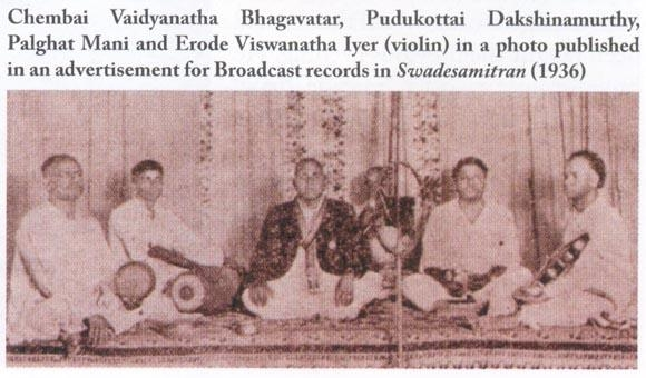 Chembai Vaidyanatha Bhagavathar (Vocal), Erode Viswanatha Iyer (Violin), Palakkad Mani Iyer (Mridangam), Pudukkottai Dakshinamurthy Pillai (Kanjira)